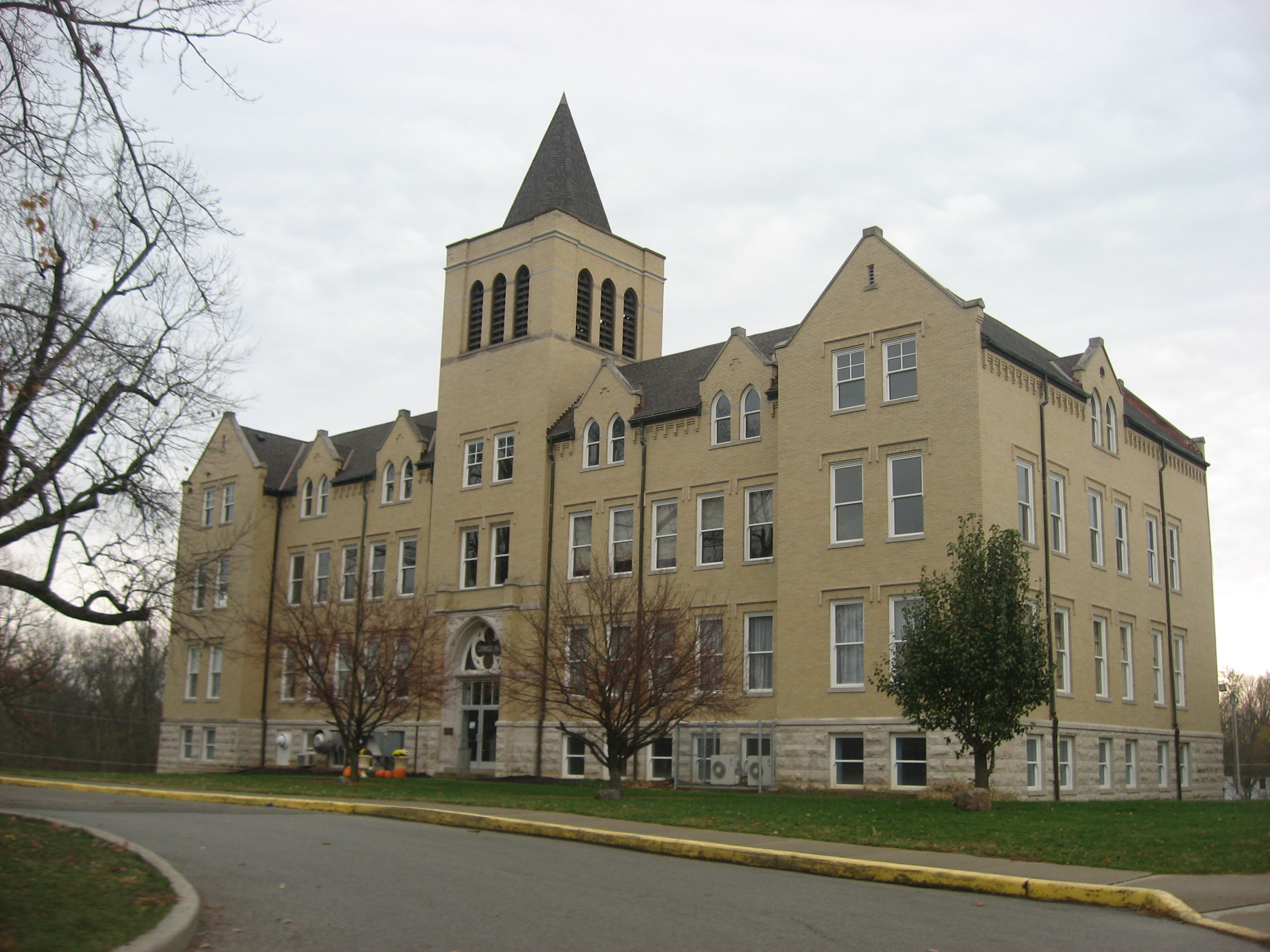 Front and western side of Carnegie Hall on the former campus of Moores Hill College (now the University of Evansville), located at 14687 Main Street in Moores Hill, Indiana, United States. Built in 1907, it is listed on the National Register of Historic Places.